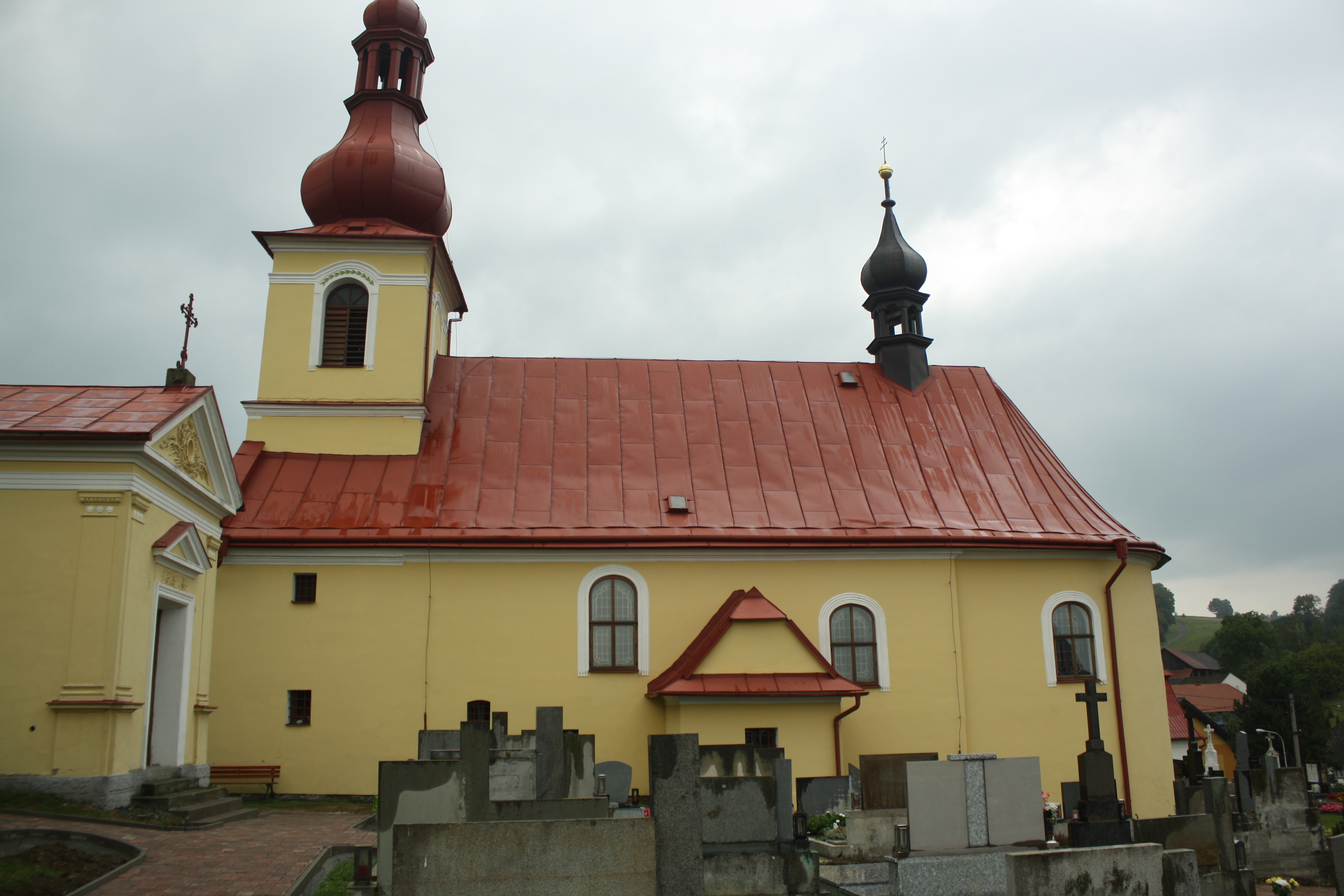 Municipality Jindřichov, Přerov District, Olomouc Region, Czechia